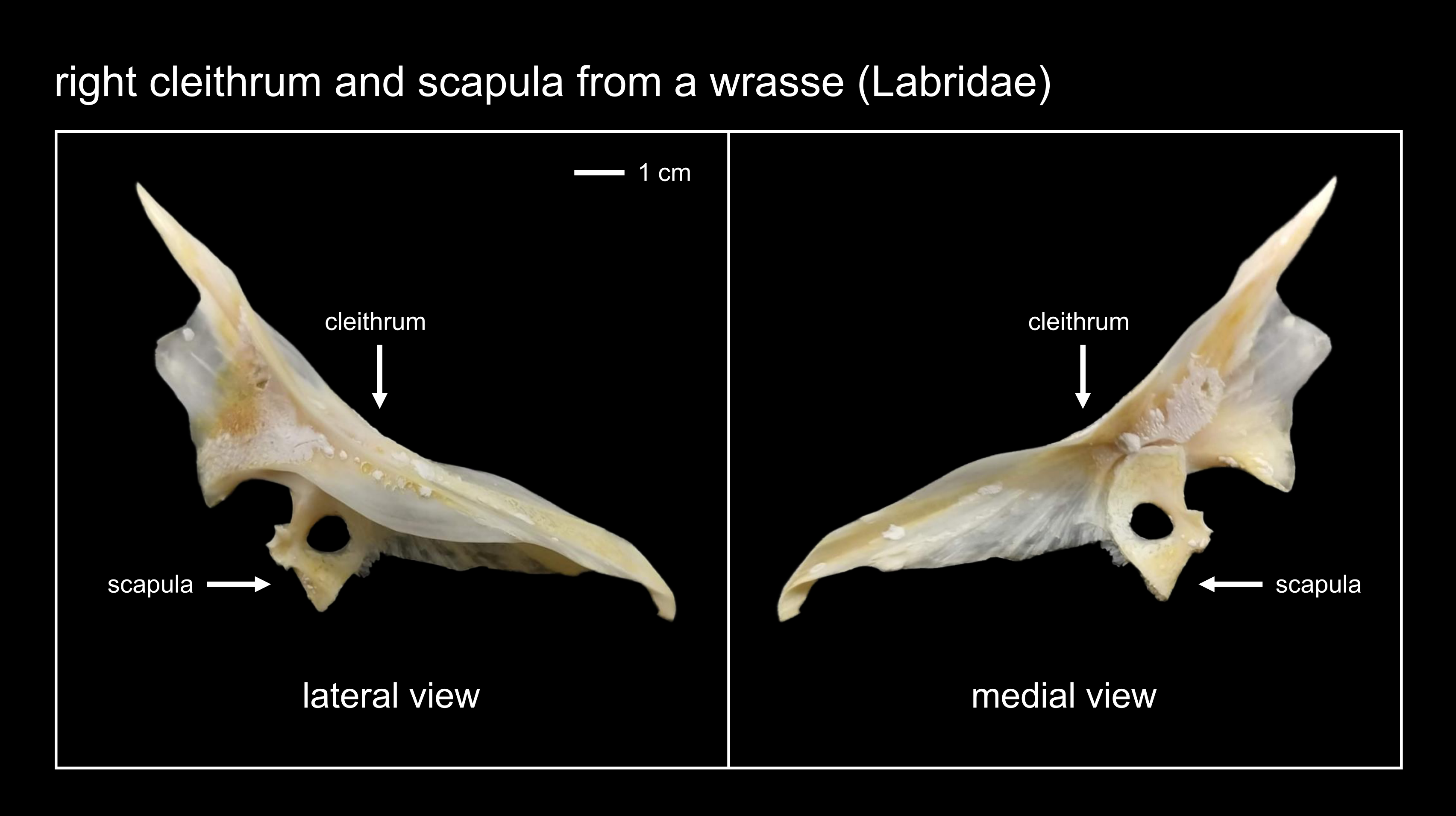 The articulated right cleithrum and scapula from a wrasse (Labridae), in both lateral and medial view.